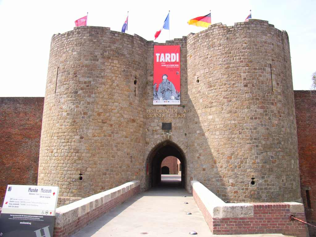 Chahteau and entrance of the museum "historial de la grand guerre", Peronne, Picardie, France